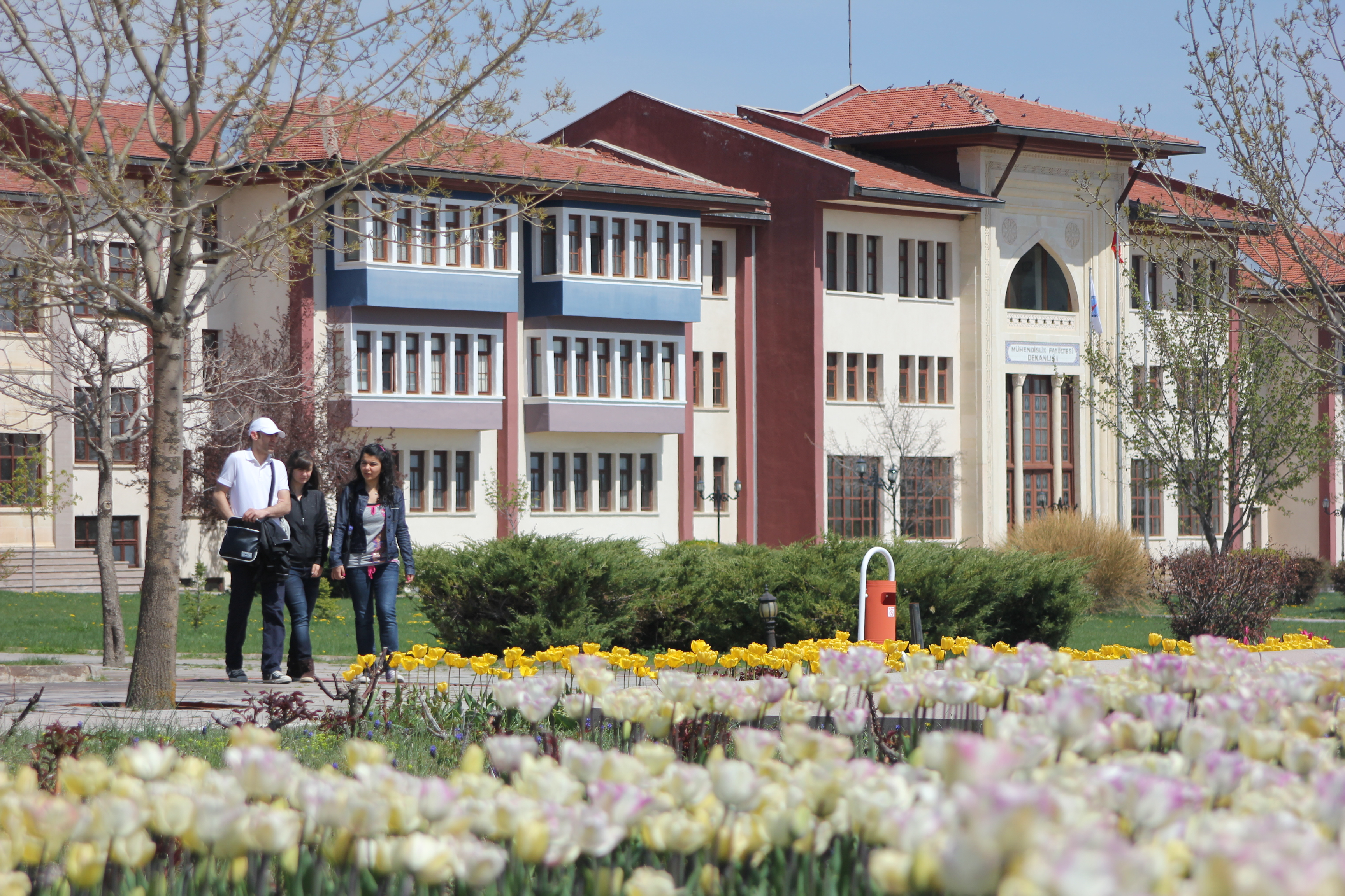 Faculty of Engineering in Evliya Çelebi Campus of Kütahya Dumlupınar University